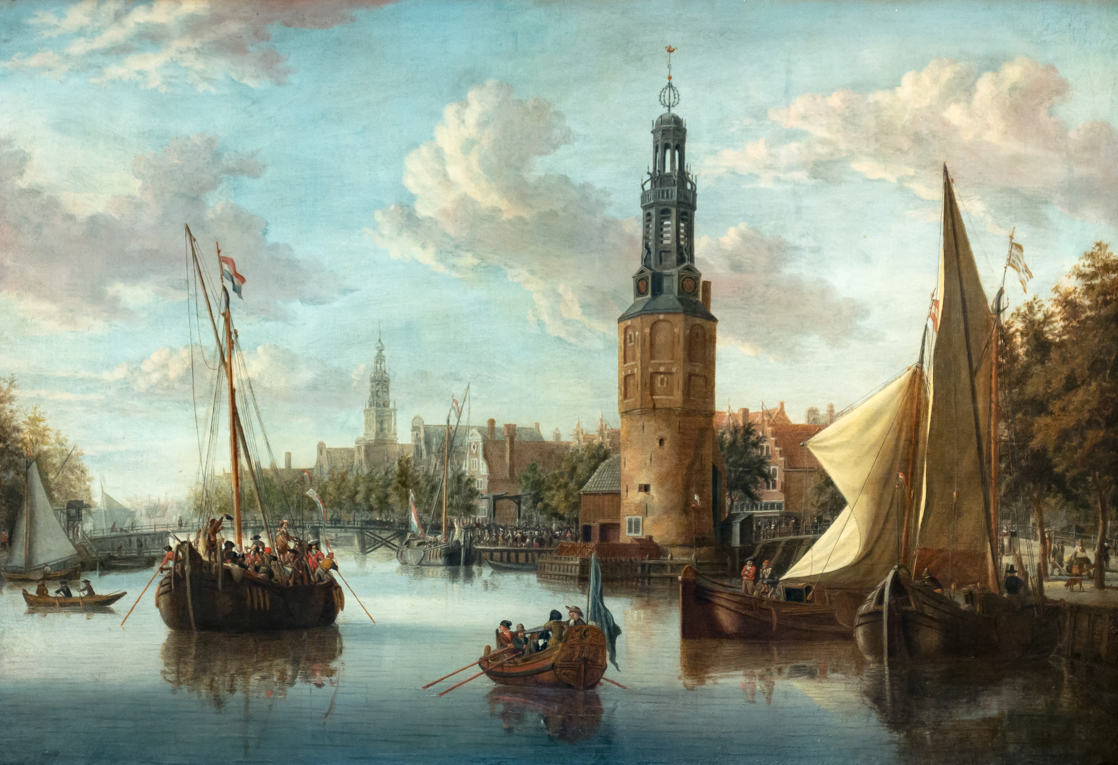 Embarkation of Company Tropps at the Montelbaan Tower, 1682 by Abraham Storck (1644-1708)